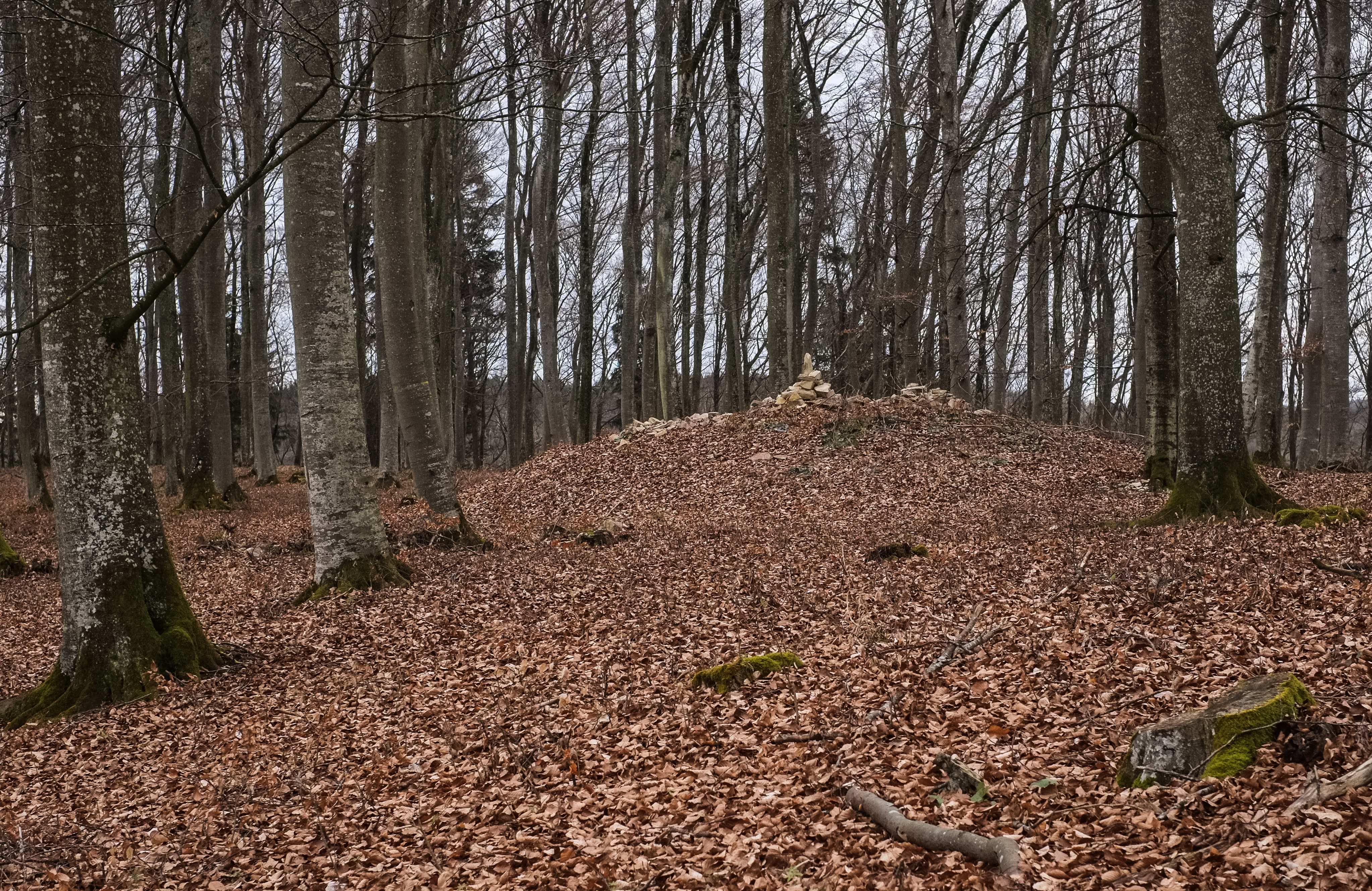 Hillfort Alte Burg, Langenenslingen, district Biberach, Baden-Württemberg, Germany